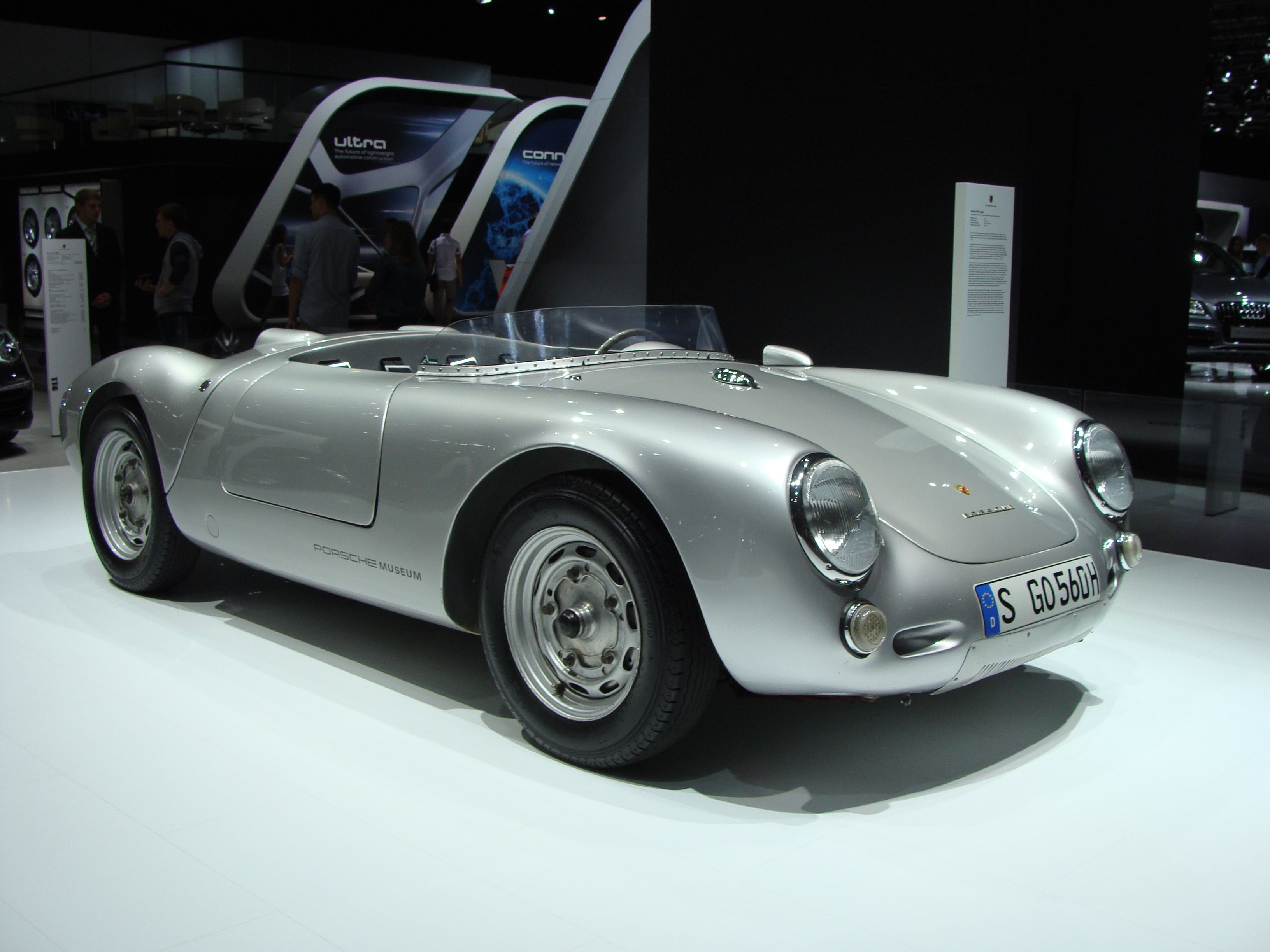 Porsche 550 A Spyder on Moscow International Automobile Salon 2012.